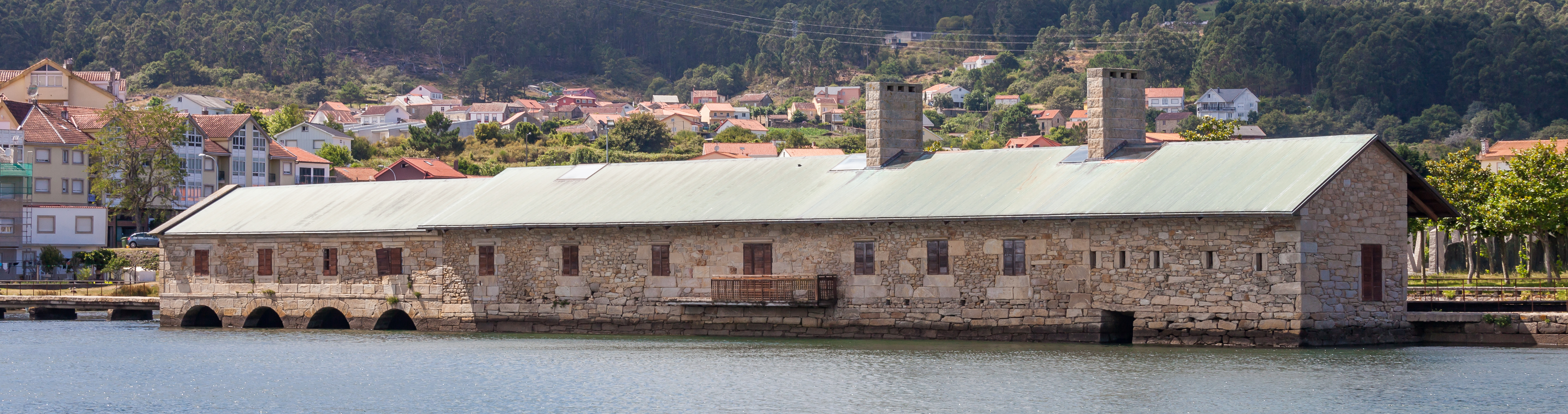 Tide mill of O Pozo do Cachón, Serres, Muros, Galicia (Spain).